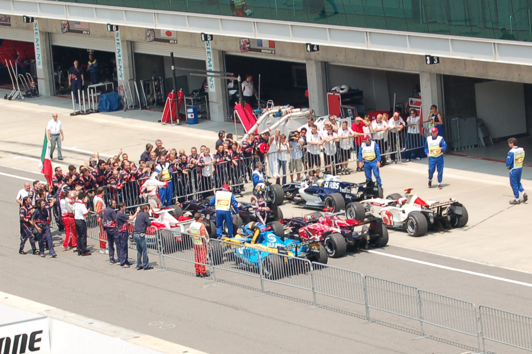 The 6 finishing, non-podium cars from the 2006 United States Grand Prix. Taken by me with a Nikon D-50, Nikkor 18-55mm lens, F9. I was seated in the B-Penthouse, Box 18.